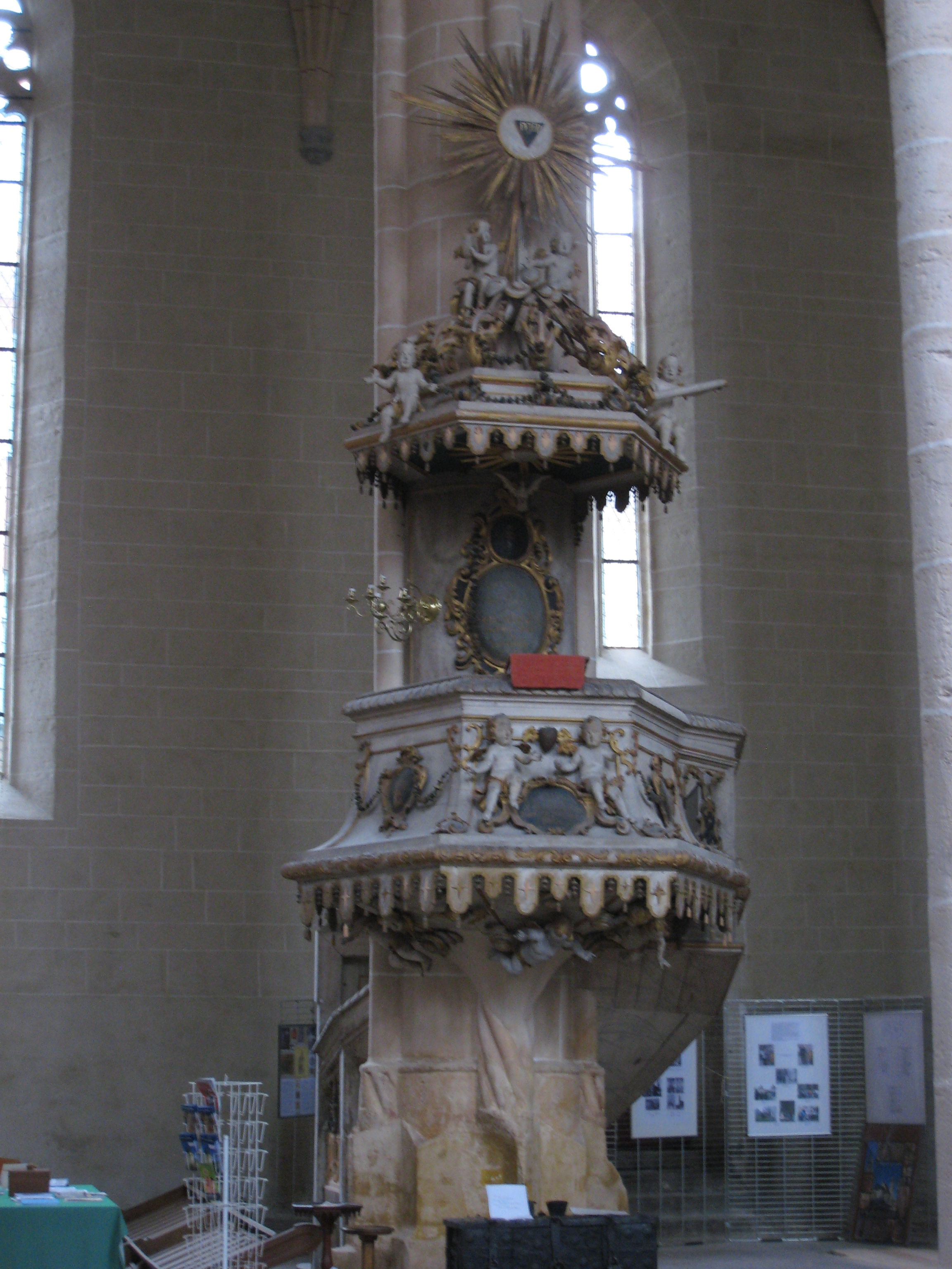 Pulpit in the Saint Boniface Church in Bad Langensalza